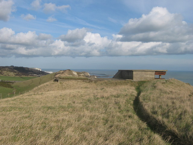 North Downs Way and Observation Post on Round Down